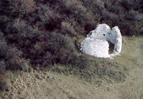 Ruin of rotunda of Kerekszenttamás in Zámoly, Hungary, aerialphotgraphy This is a photo of a monument in Hungary. Identifier: 3973